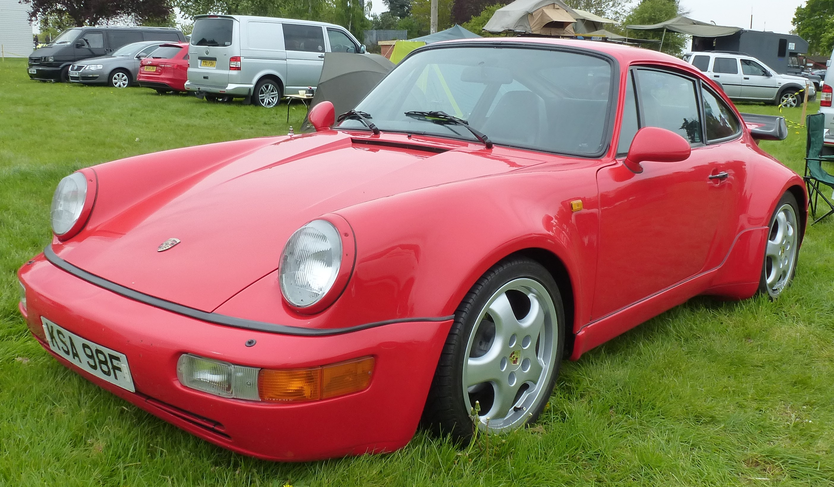 Covin Turbo